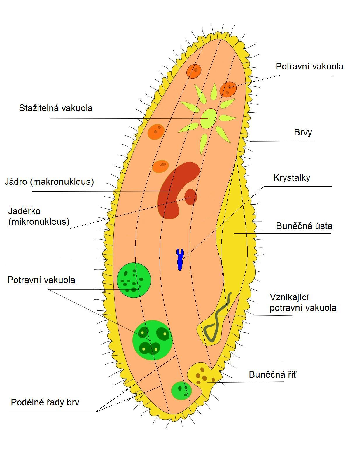 Paramecium caudatum with legend in Czech.